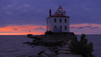 Headlands Beach State Park at Fairport Harbor, Ohio, in Summer 2005.